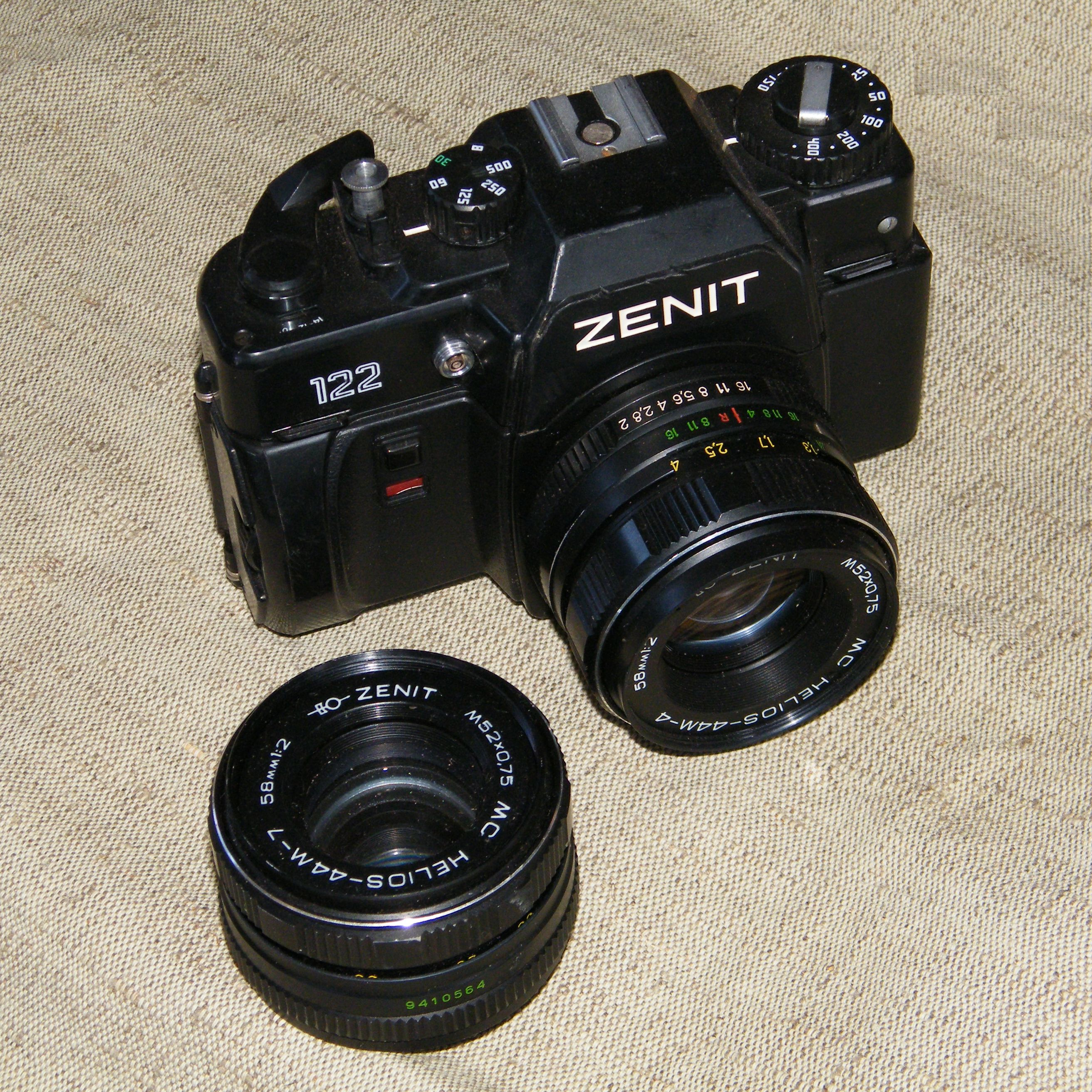 Zenit 122